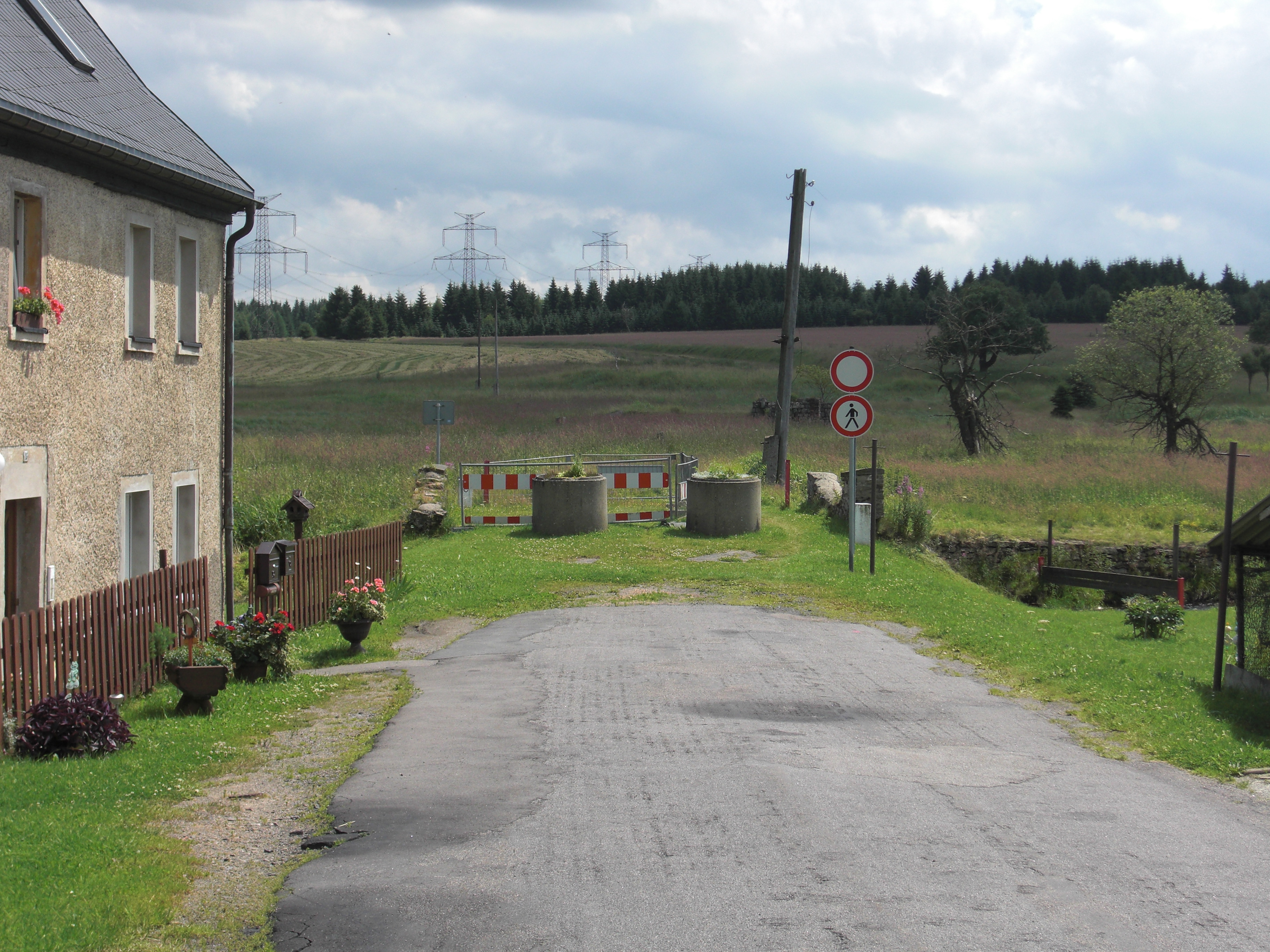 Border crossing at Satzung (Germany), view towards Jilmová (Czechia)